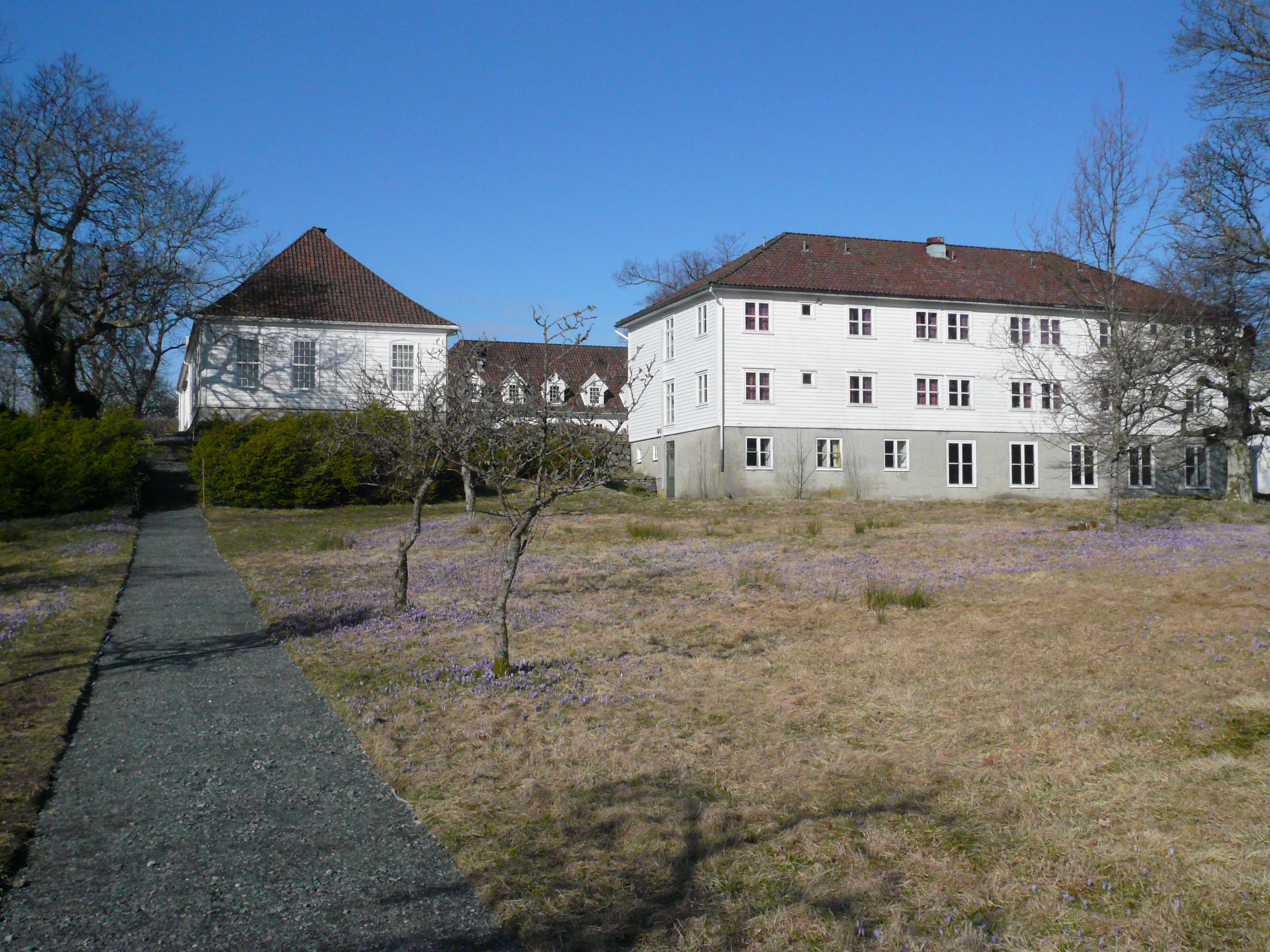 Store Milde, Bergen, Norway